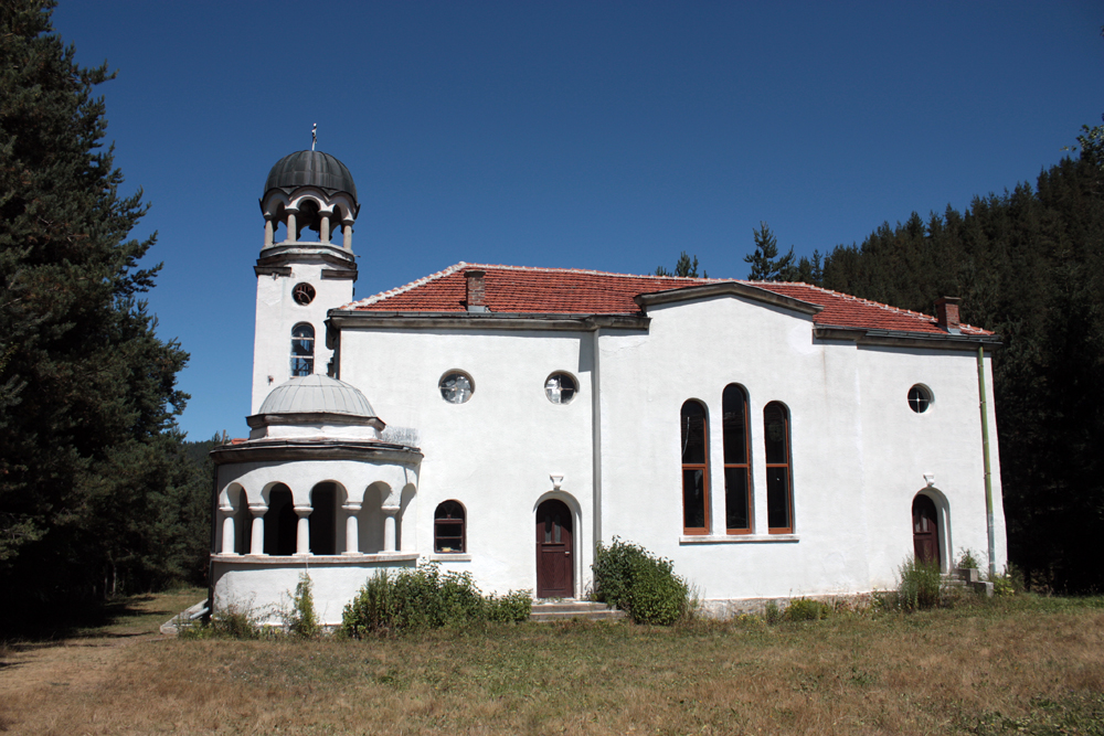 The new St.Peter and St.Paul Church in Mala Tsarkva village, Bulgaria